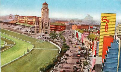 Great Racecourse of Shanghai